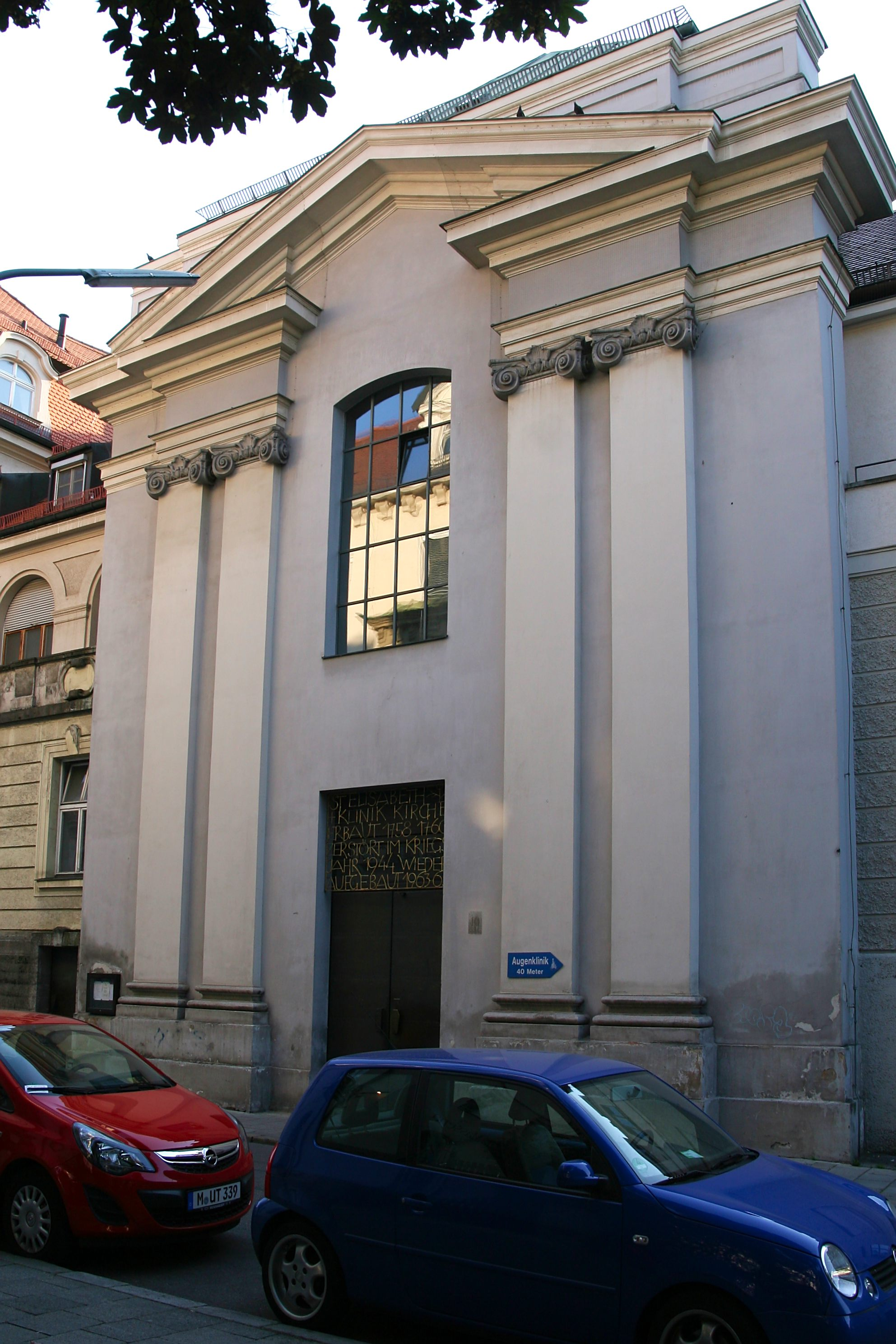 The church of St. Elisabeth in Mathildenstraße in clinic district of Munich (Germany) from the outside. Not to be confused with the churches of the same name in Munich Haidhausen or Herzogspitalstraße.